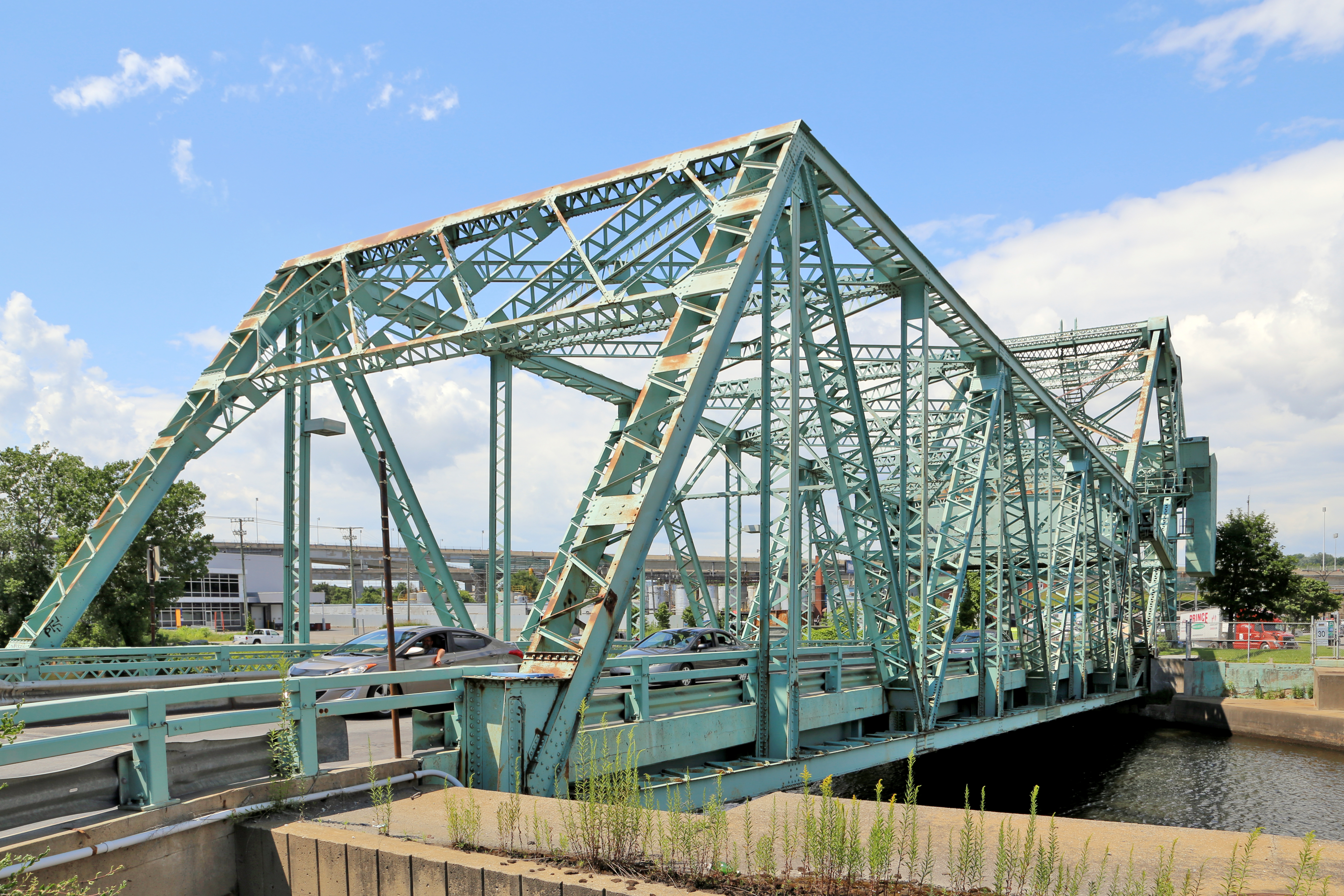 The Pont Gauron (Gauron Bridge), in Montreal, viewed from the southeast. It is a single-leaf bascule bridge built in 1912 and is one of two adjacent bridges that cross the Lachine Canal to connect Avenue Dollard, in La Salle, with Avenue Saint-Pierre, in Lachine, the other bridge being the younger Lafleur Bridge (built in 1959). The bascule draw spans of the two bridges no longer function.